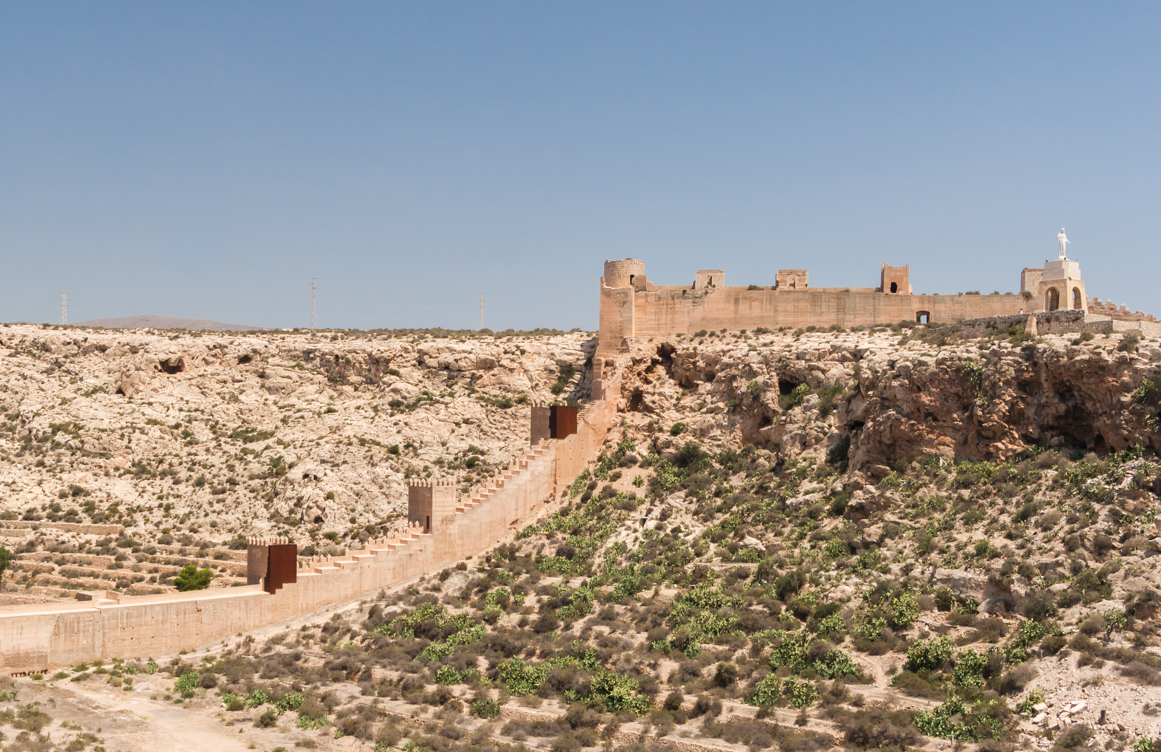 City walls, Almeria, Spain